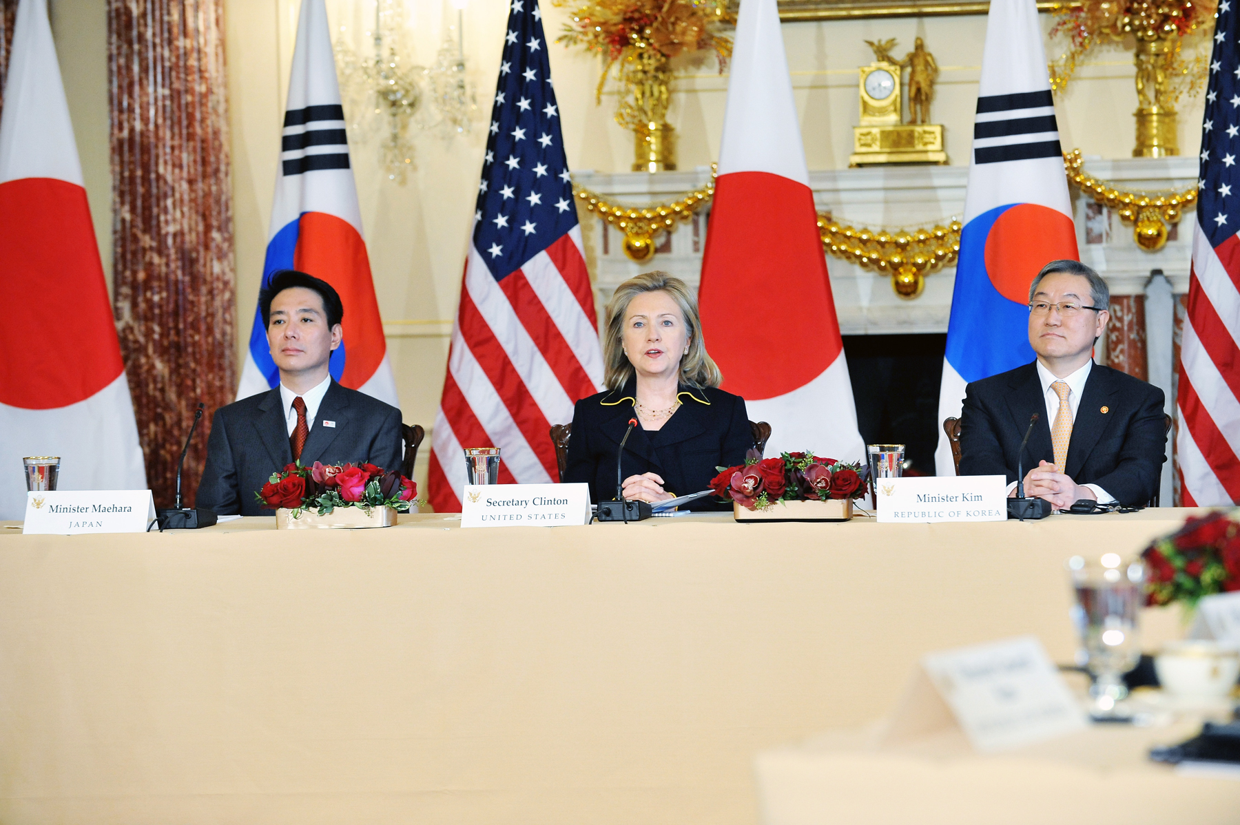 U.S. Secretary of State Hillary Rodham Clinton holds a trilateral meeting with Japanese Foreign Affairs Minister Seiji Maehara and Republic of Korea Foreign Affairs and Trade Minister Kim Sung-Hwan at the U.S. Department of State in Washington, D.C., on December 6, 2010.